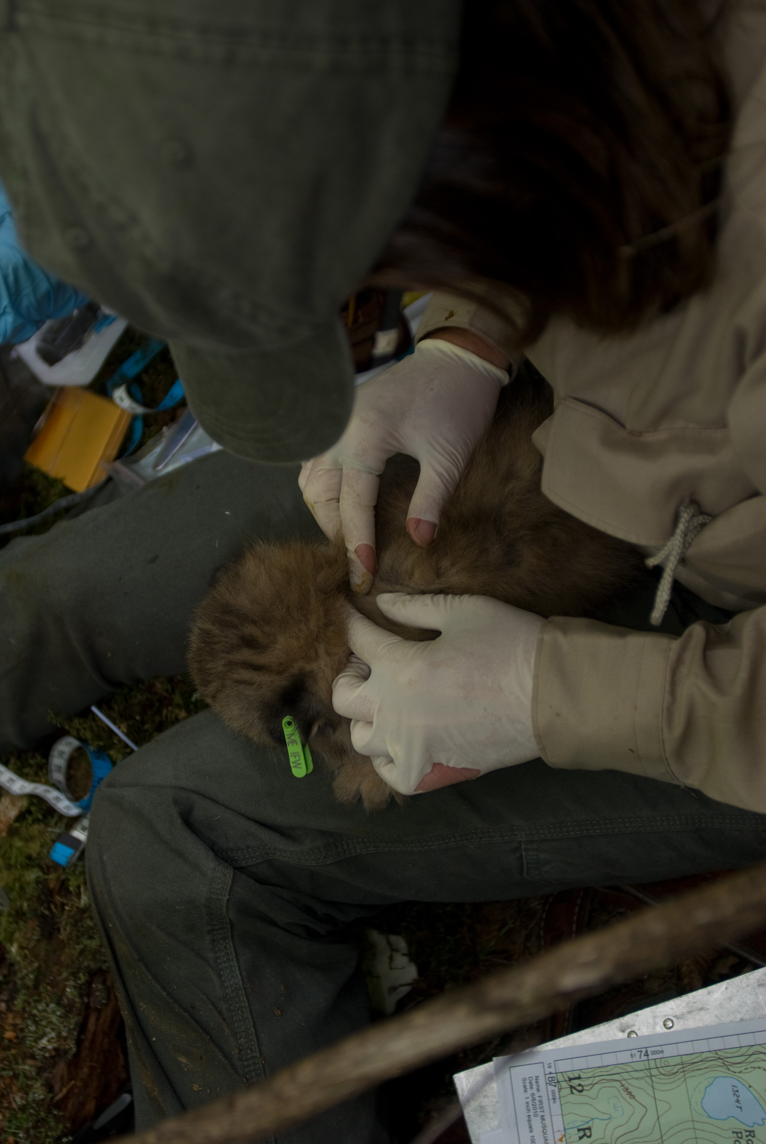 A wildlife biologists tags finds an appropriate location on the back of a lynx kitten for an RFID implant which will allow for future recollection of this lynx's habitat and behavior. Credit: James Weliver / USFWS